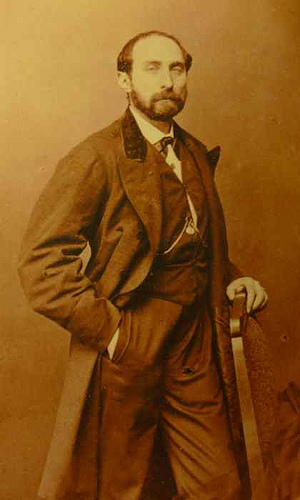 Photograph of Georges de Bellio (1828-1894)